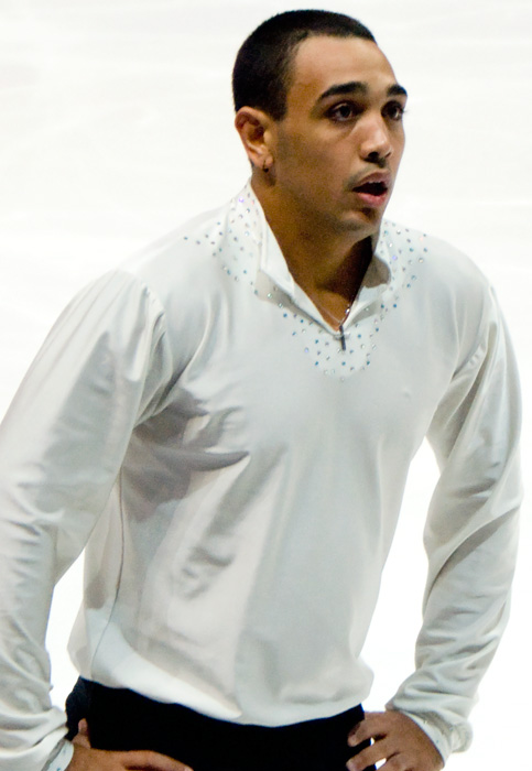 2010 Cup of Russia, free skating.